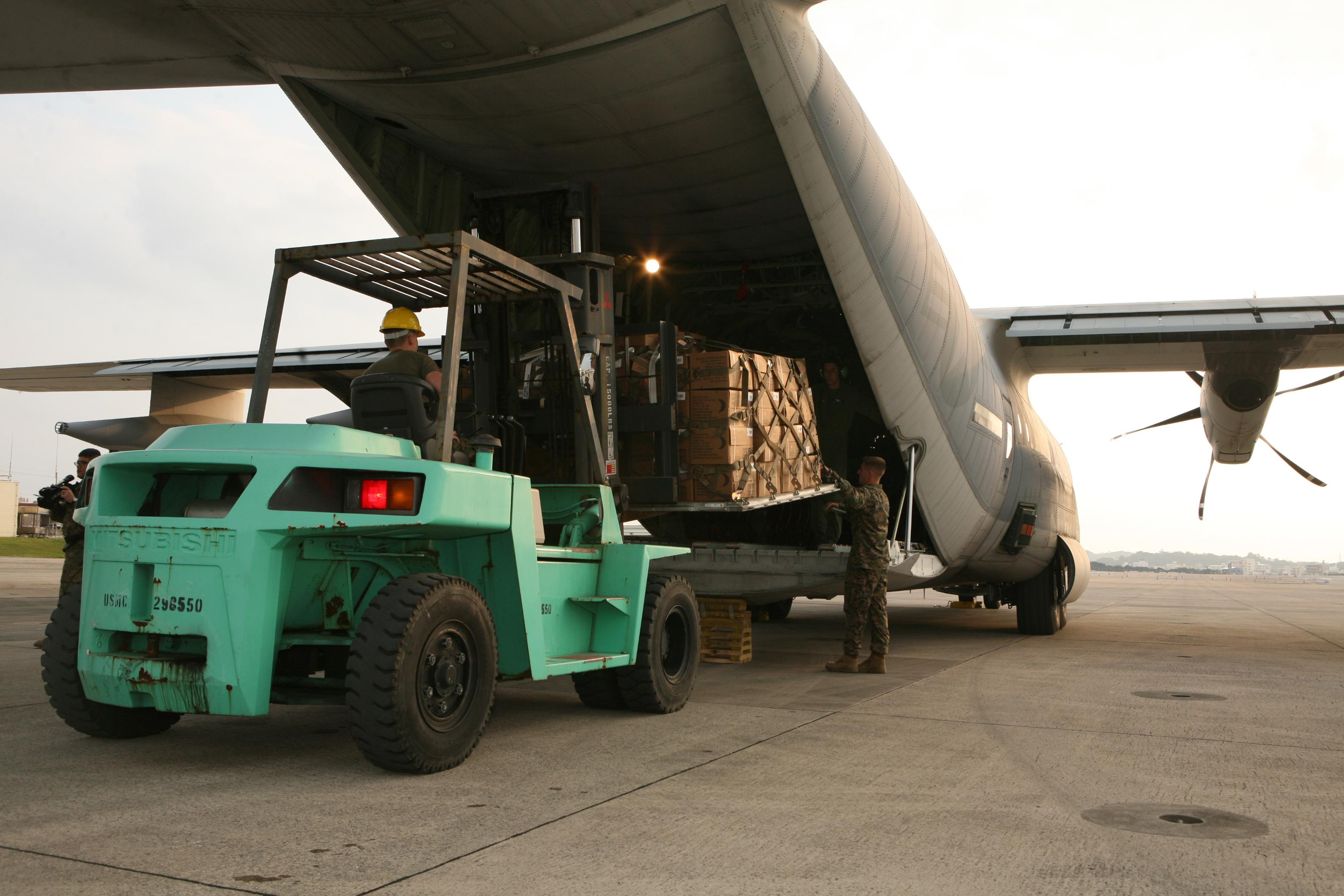 Marines with the 1st Marine Aircraft Wing, III Marine Expeditionary Force, load palettes of food, water and medical supplies into a KC-130J Super Hercules aircraft on the Marine Corps Air Station Futenma flight line March 12 to provide assistance in the wake of the earthquake and tsunami that struck Japan, March 11. The aircraft carries more than 8,600 pounds of supplies to assist the victims of the disaster. Marines will work through the night loading planes with more supplies and personnel to be delivered to affected areas. The proximity of Marine aviation assets at MCAS Futenma has allowed Marines from III MEF to rapidly deploy critically-needed supplies and aid to areas that need it most. III Marine Expeditionary Force Public Affairs Photo by Lance Cpl. Dengrier Baez Date Taken:03.12.2011 Location:47, JP Related Photos